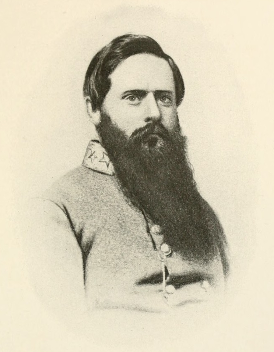 Confederate General Fitzhugh Lee